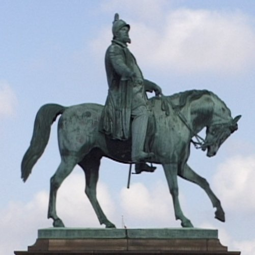 Horse and rider statue of Frederik VII of Denmark in front of Christiansborg, Copenhagen. The statue is work by Herman Wilhelm Bissen (1798-1868), started in 1856 and statue finally erected in 1873. Source: [1]